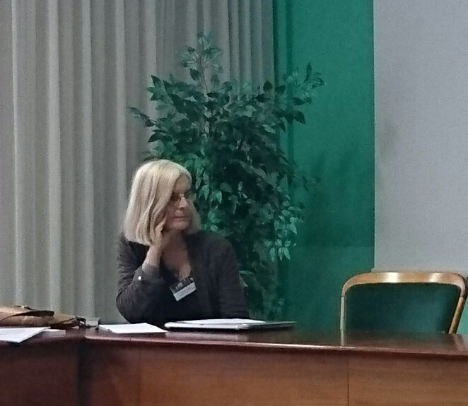 Sarah Hutton in Toruń, on the conference 'Berkeley, Kant, and Modern Philosophical Debates', on Oct 27, 2016